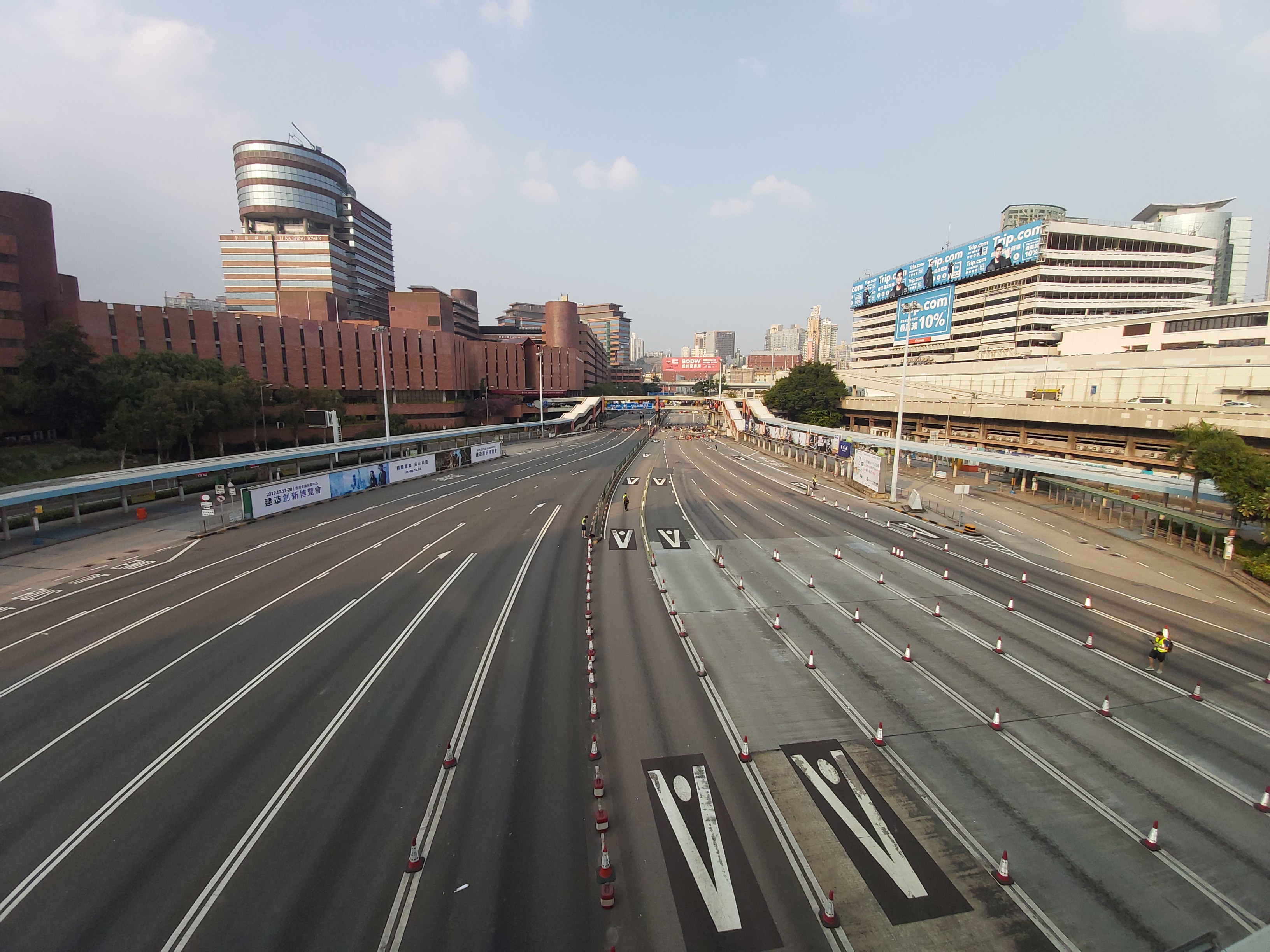 Traffic of Cross-Harbour Tunnel was completely suspended due to protest in PolyU